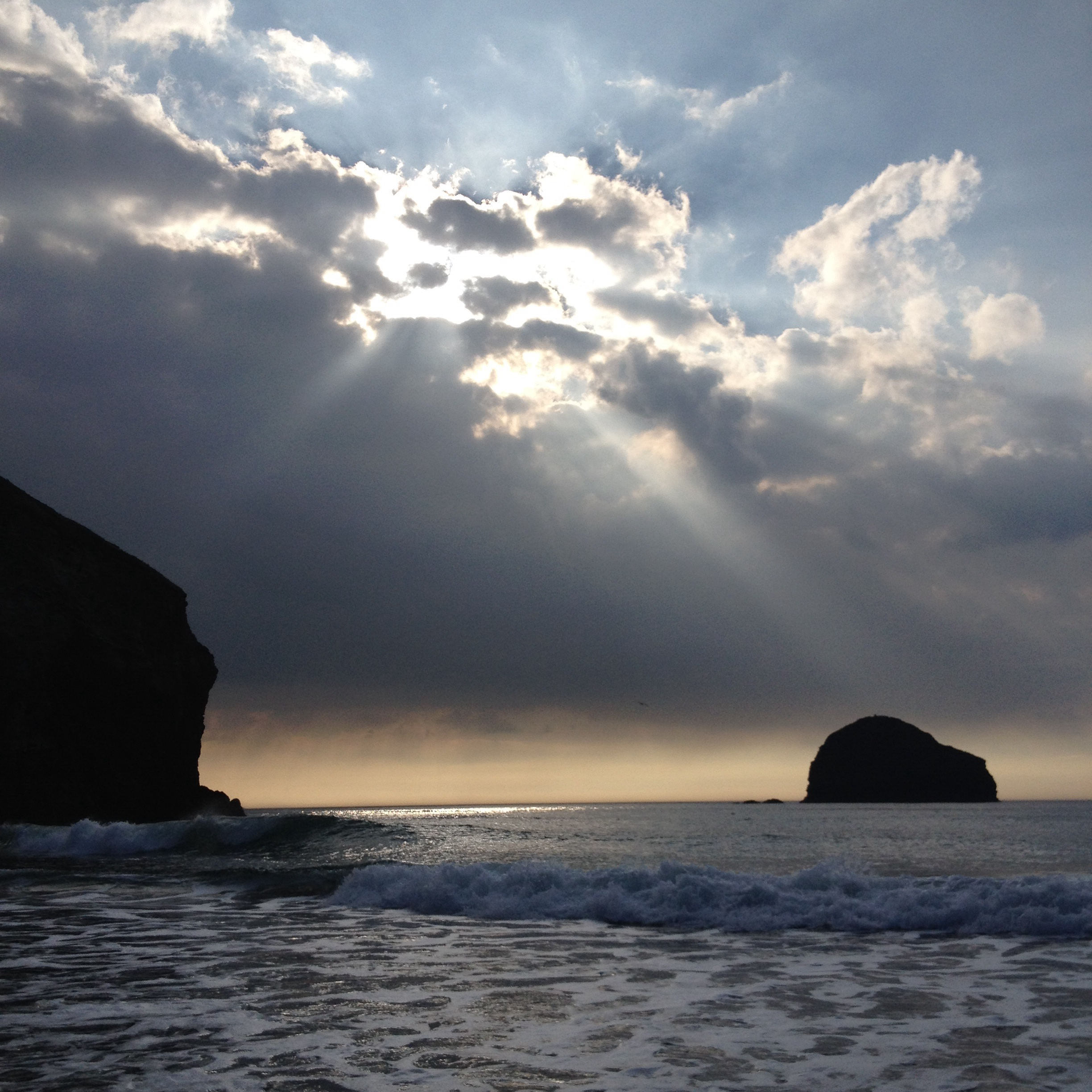 Trebarwith Strand at sunset, low tide. Cornwall